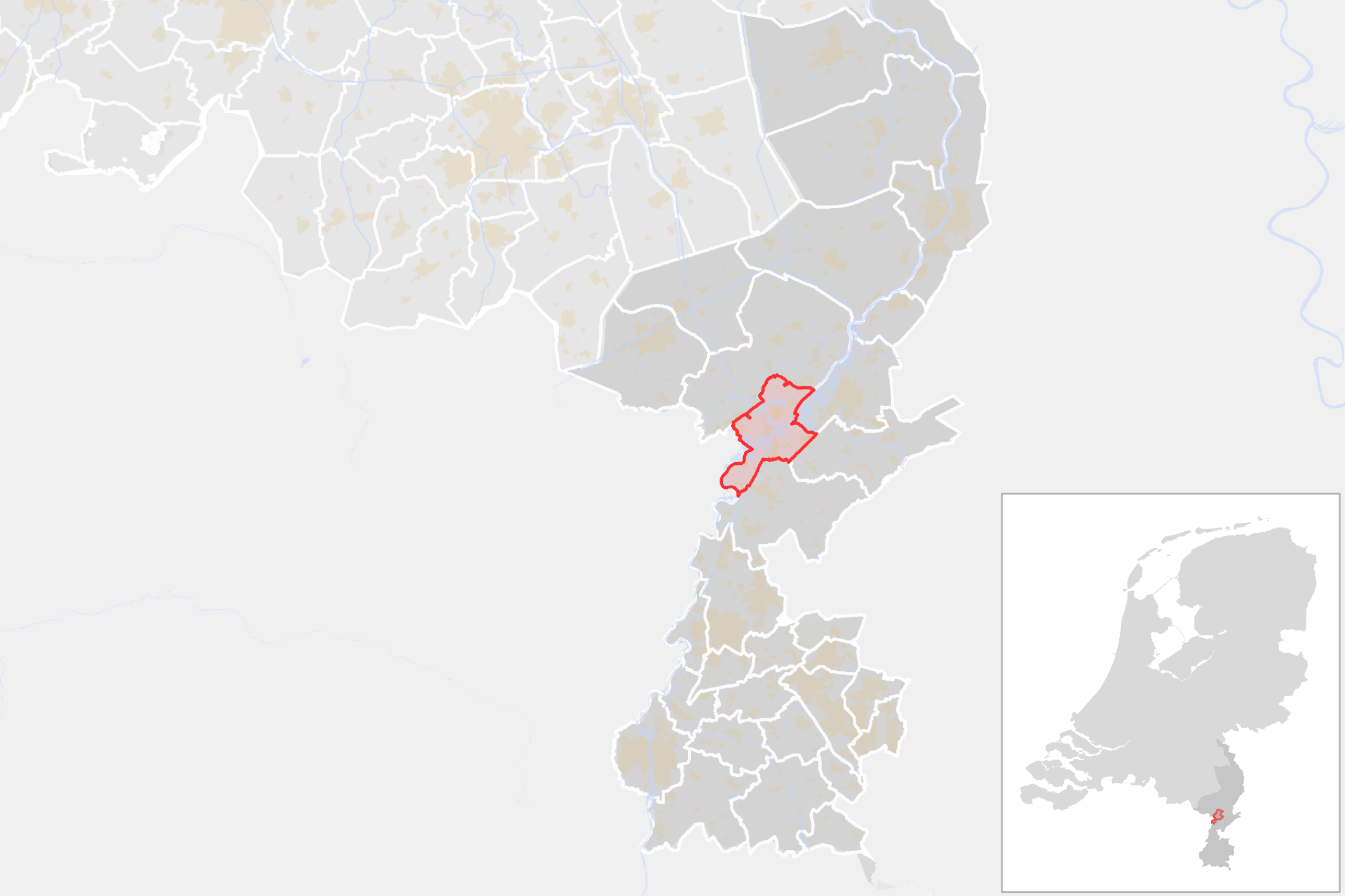 Locator map showing municipality boundary of one of the 390 Dutch municipalities (as of 2016)